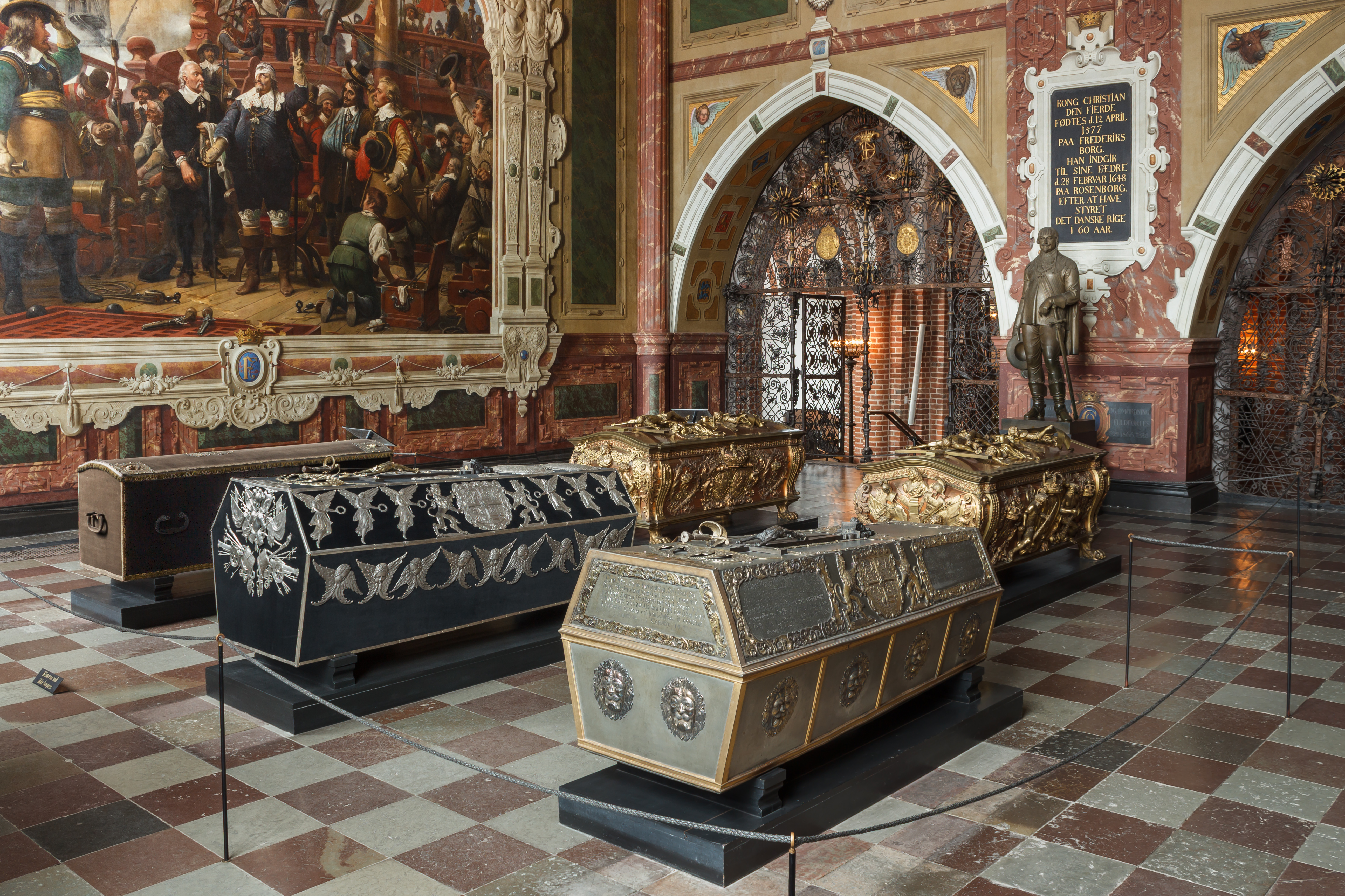 Christian IV's Chapel in Roskilde Cathedral, Roskilde, Denmark